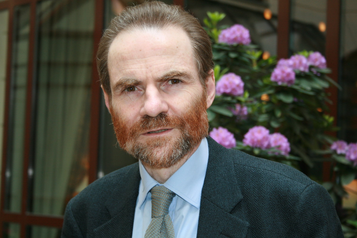 Sharing pictures for Wikipedia article: © CC-BY Liisa Past